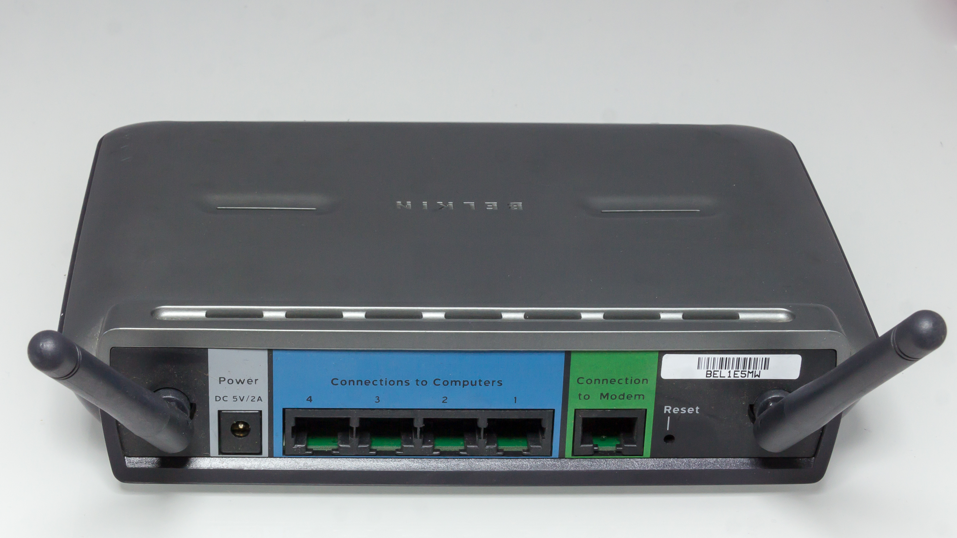 Belkin Wireless G Router F5D7231-4 Version 1000de